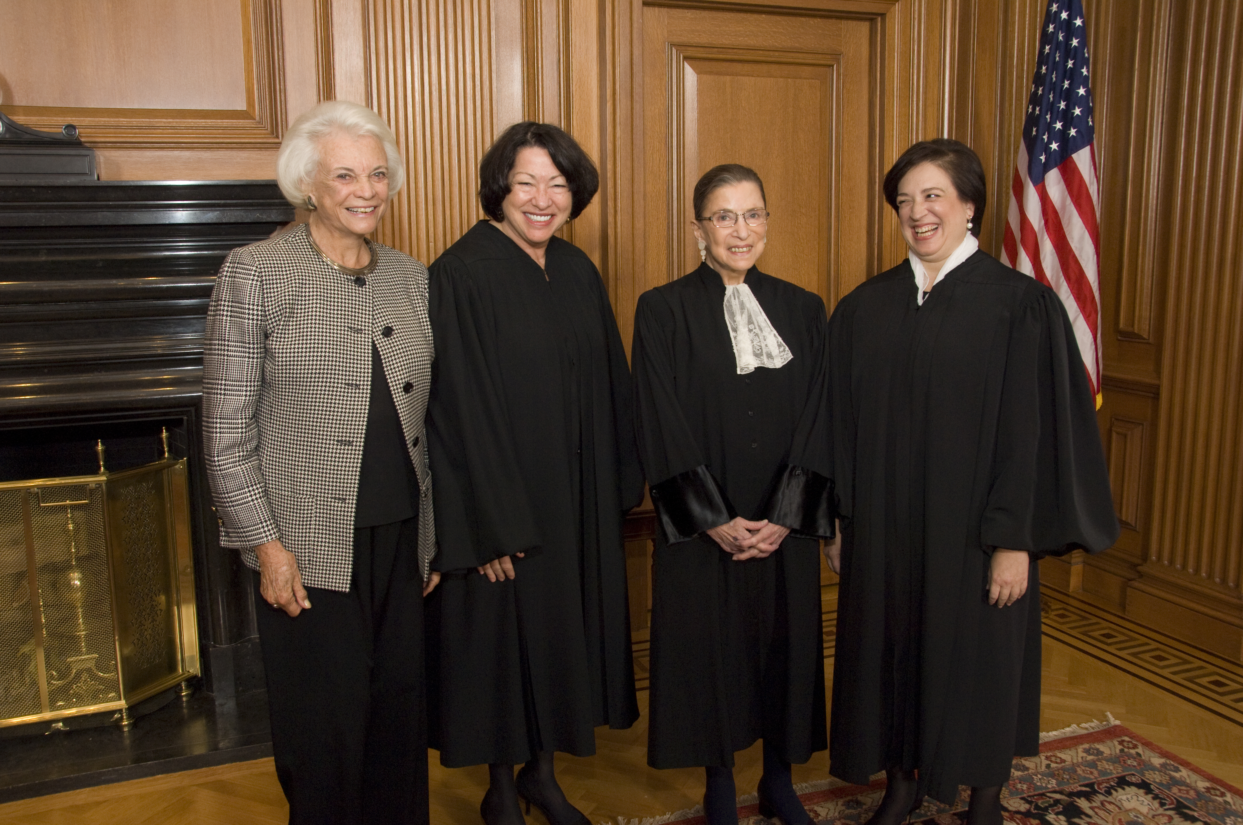 The four women who have served on the Supreme Court of the United States. From left to right: Justice Sandra Day O'Connor (Ret.), Justice Sonia Sotomayor, Justice Ruth Bader Ginsburg, and Justice Elena Kagan in the Justices' Conference Room, prior to Justice Kagan's Investiture Ceremony on October 1, 2010.